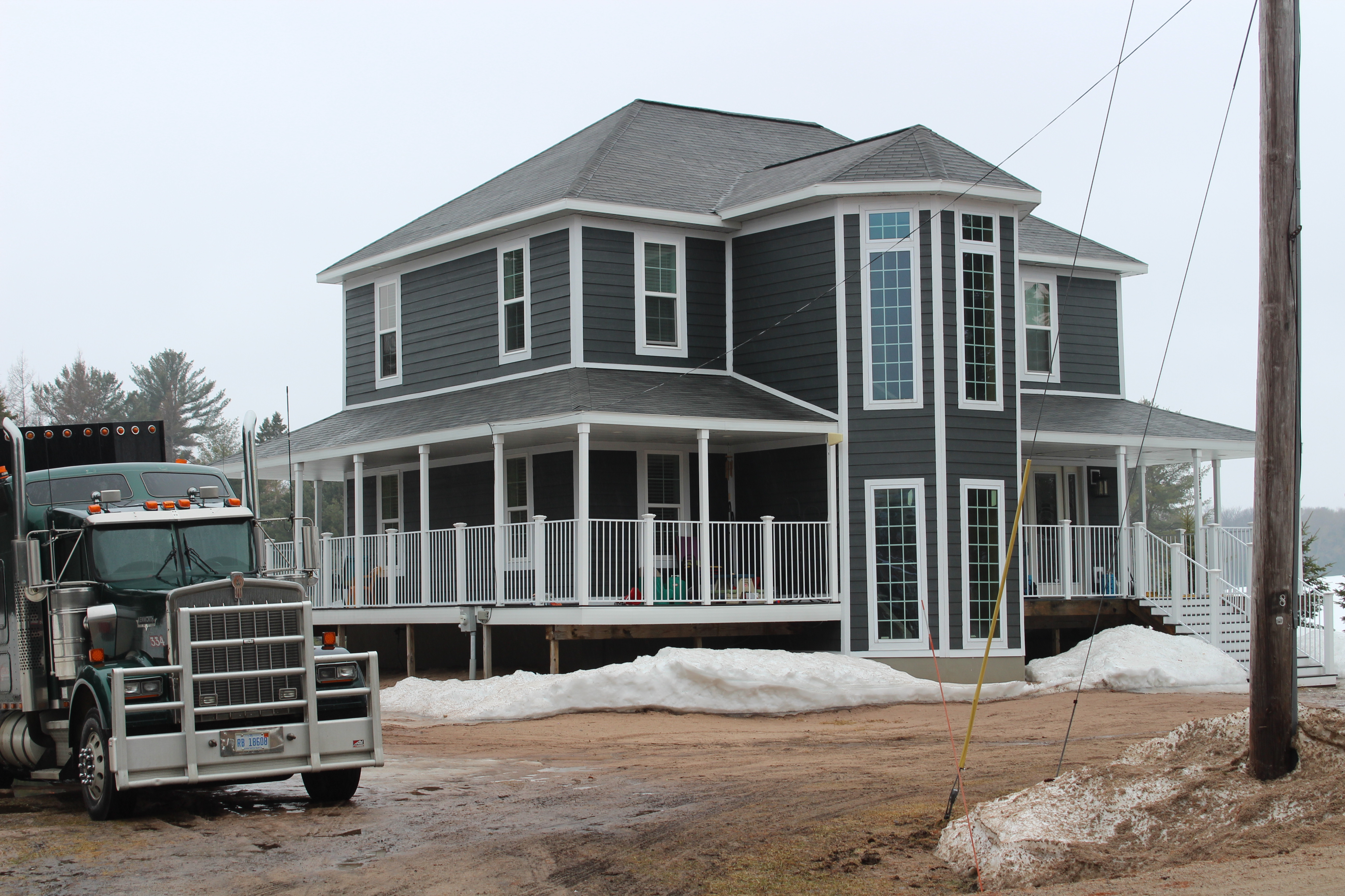 The old Kinross Township Hall and School, an NRHP-listed building, seen in 2019. It had been sold to a private developer, and the appearance is significantly different from when it was nominated for the register in 2004.